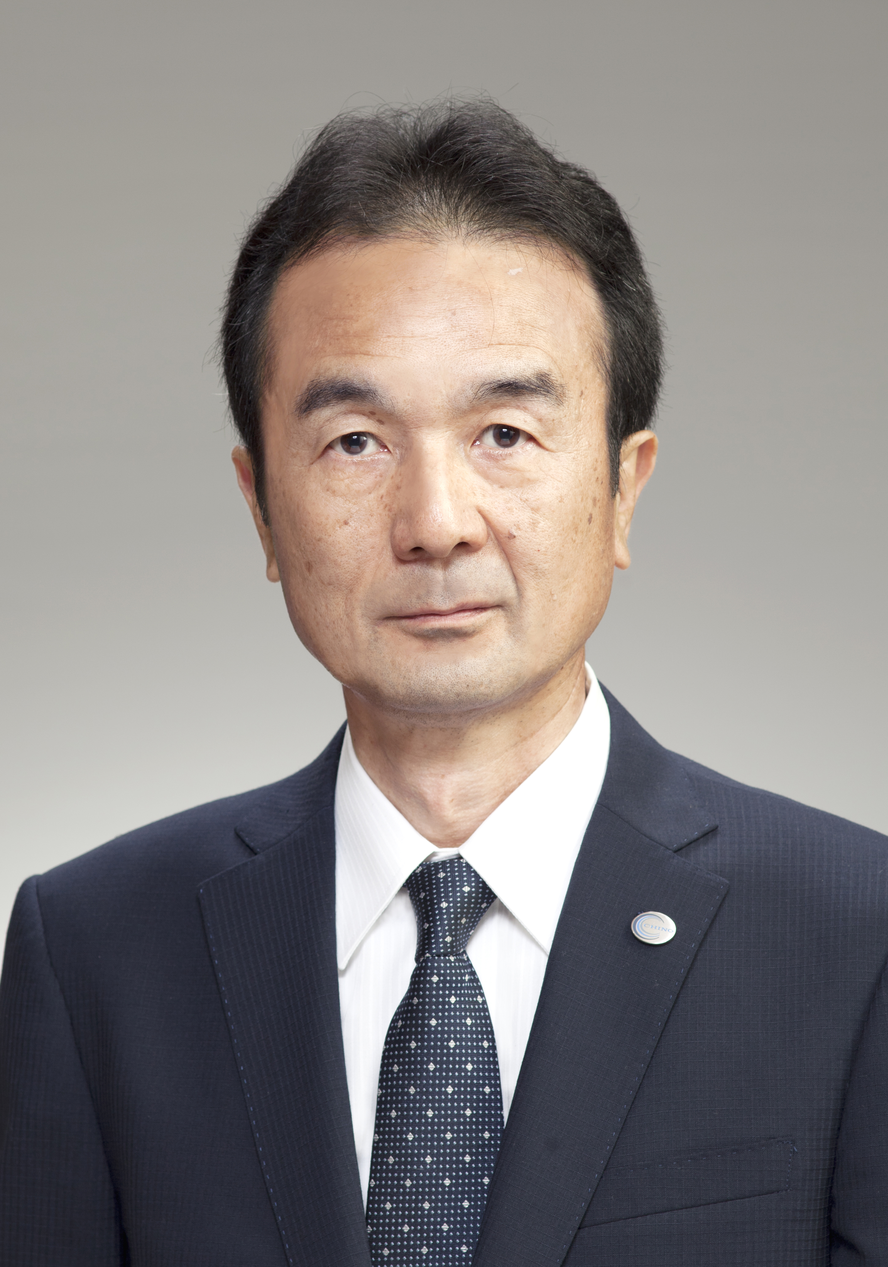 President of CHINO Corporation